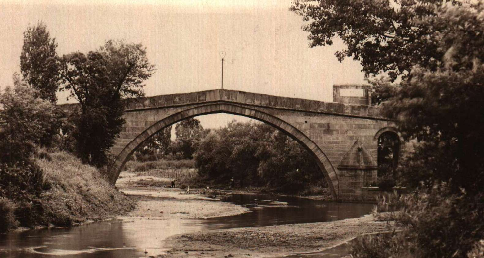 Harmanli, Bulgaria